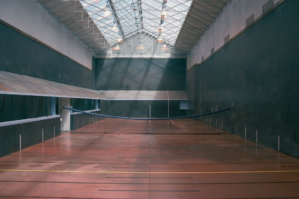 Canford real tennis court in England.